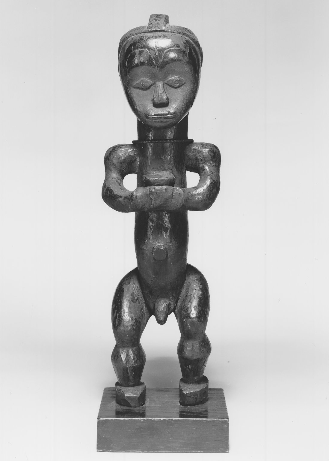 Reliquary Guardian Figure (Eyema Bieri)